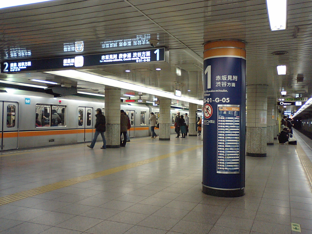 Platform of Tameike-Sannō Station (Tokyo Metro Ginza Station).